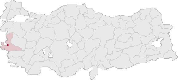 Shows the location of the province İzmir in Turkey